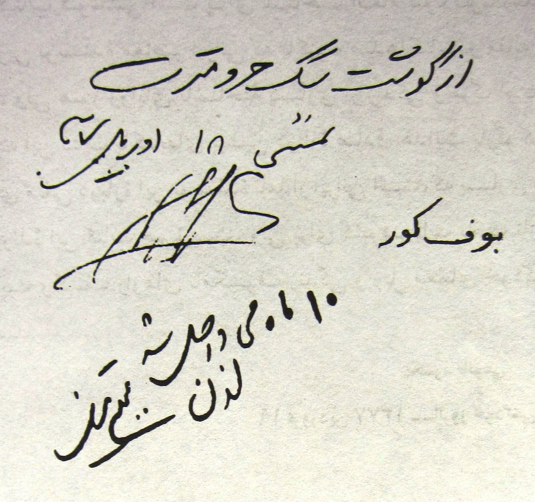 This is the handwriting of Sadegh Hedayat written on The Blind Owl, sent as a gift to Mojtaba Minavi from Mumbai to London in 1397.